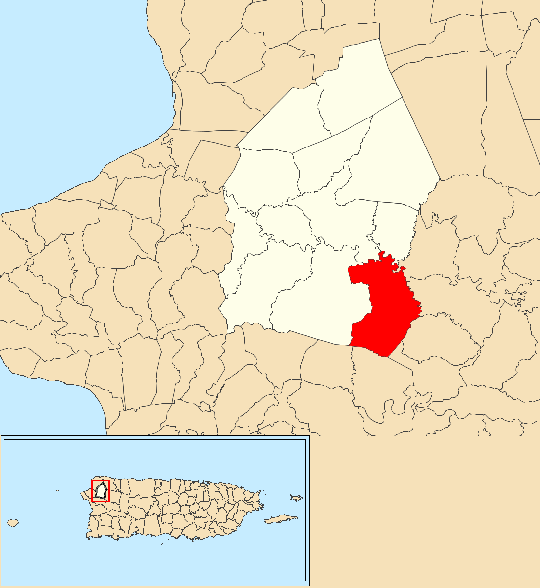 Plata, Moca, Puerto Rico locator map